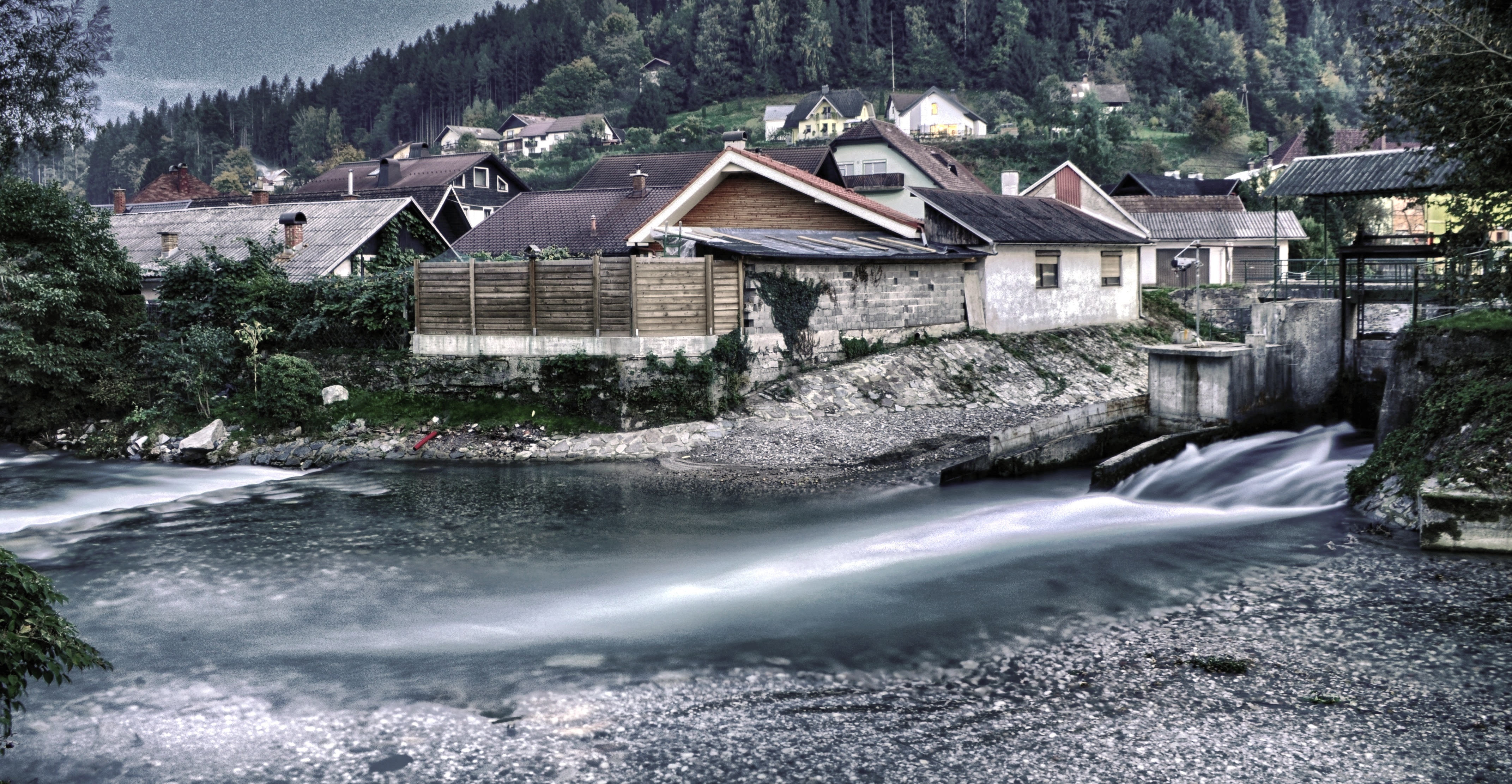 The river Meža in Prevalje, Slovenia Three exposures stitched together with Nik HDR Efex Pro. The idea was to image the full moon above the village, but the moon came out like a bright amorphous blob and I decided to crop it out.